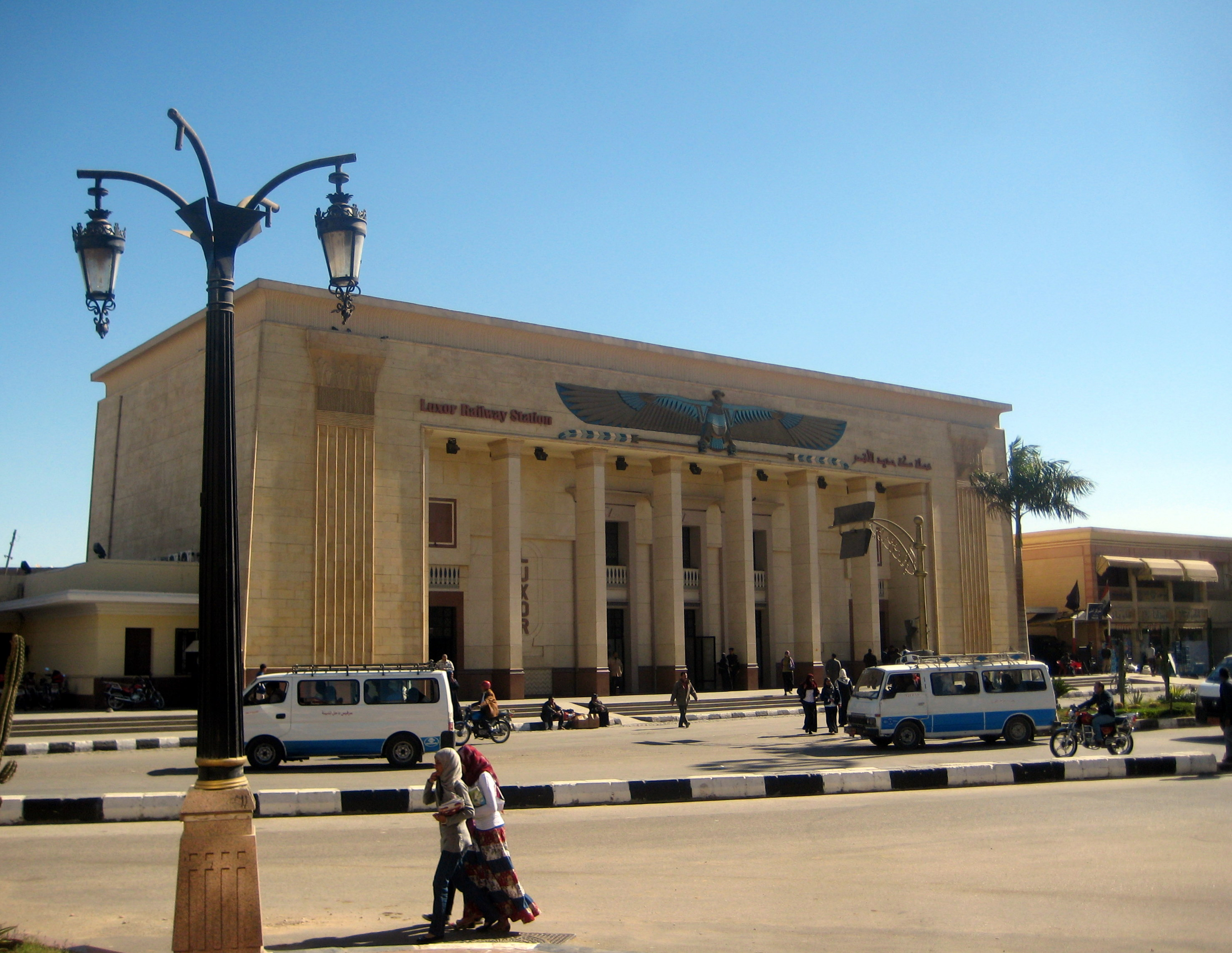 Luxor railway station, Egypt.